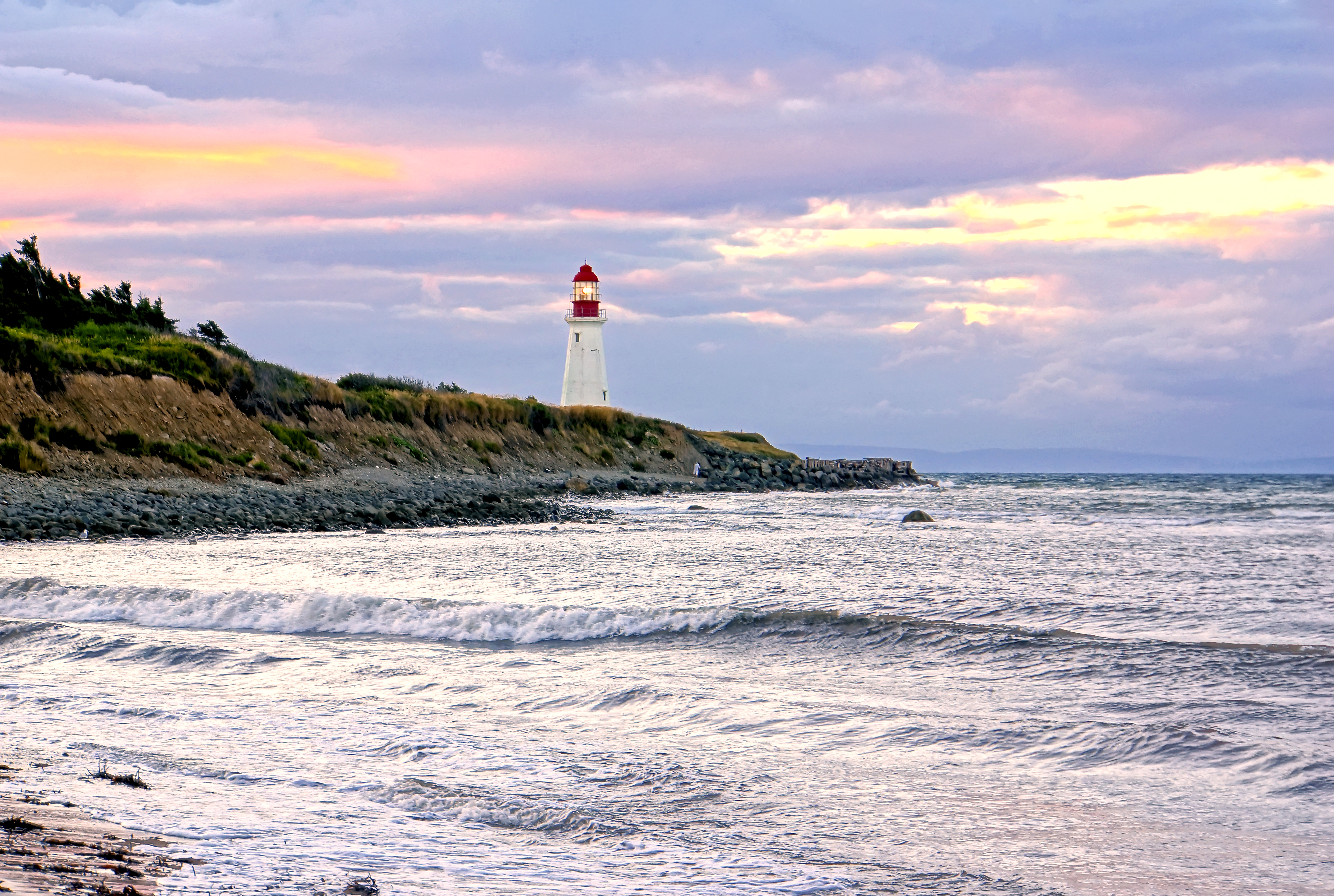 This is a photograph of Low Point Lighthouse, located in New Victoria, Nova Scotia, Canada. Low Point Lighthouse is at the North East entrance of Sydney Harbour and marks the approaches to the harbour. My photos are FREE for anyone to use, just give me credit and it would be nice if you let me know, thanks - NONE OF MY PICTURES ARE HDR. I left the lighthouse, not getting the great colours I had hoped for but as I was leaving I went in a different direction than normal and managed to get this shot which I liked. ------------------------------- The first lighthouse was an octagonal wood tower built in 1832, 21 meters (69ft) high. It had a round iron lantern and a 3rd order double bullseye lens manufactured in France. This lighthouse was replaced in 1936 by the current concrete tower, but the original lantern and lens were retained. It has the only remaining circular lantern in Nova Scotia. Location: Northeast entrance to Sydney Harbour Began and Lit: 1938 Tower Height: 22 meters (72ft) Light Height: 23.8 meters (78ft) above water level Characteristic: Flashing White (1992) Still operating: True Region: Cape Breton Island Scenic Drive: Marconi Trail This photo is of a cultural heritage site in Canada, number 13966 in the Canadian Register of Historic Places.